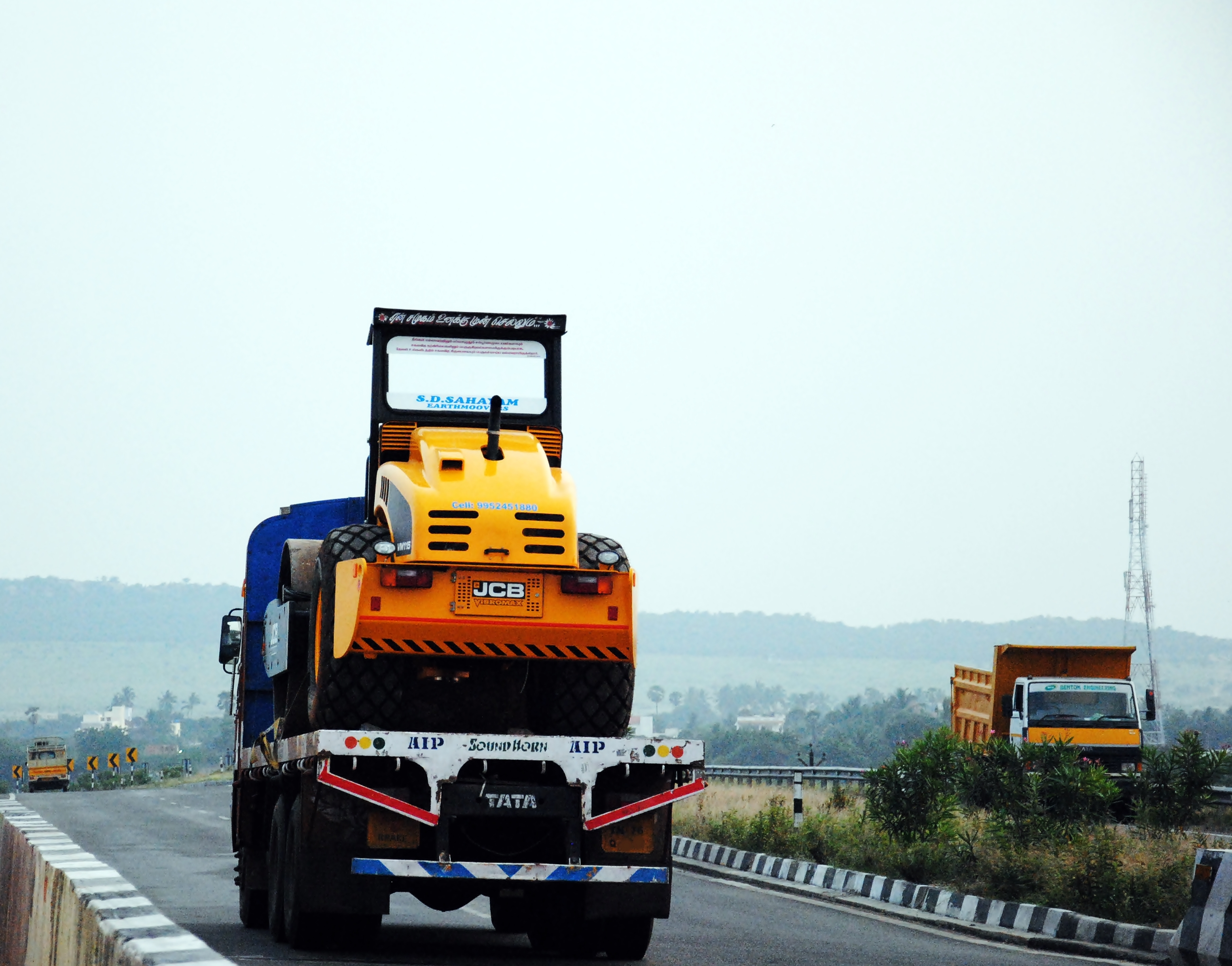 The Soil Compactor VM 115 of JCB being transported by a lorry.